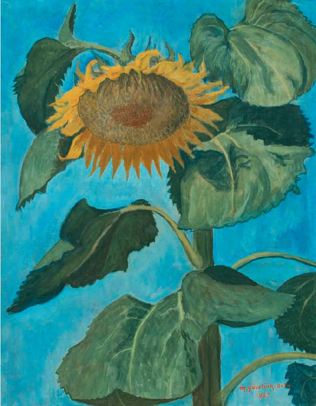 Mehmet Yuceturk Aycicegi picture